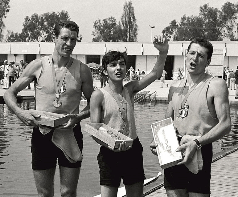 The Italian rowers Renzo Sambo (on the left) and Primo Baran (on the right) with the coxwain Bruno Cipolla (in the centre) are the winner of the Olympic coxed pairs final race. They are saluting the crowd with the gold medal around their necks and an olive branch in their hands on the coasts of lake Xochimilco. Mexico City (Mexico), October 19, 1968.